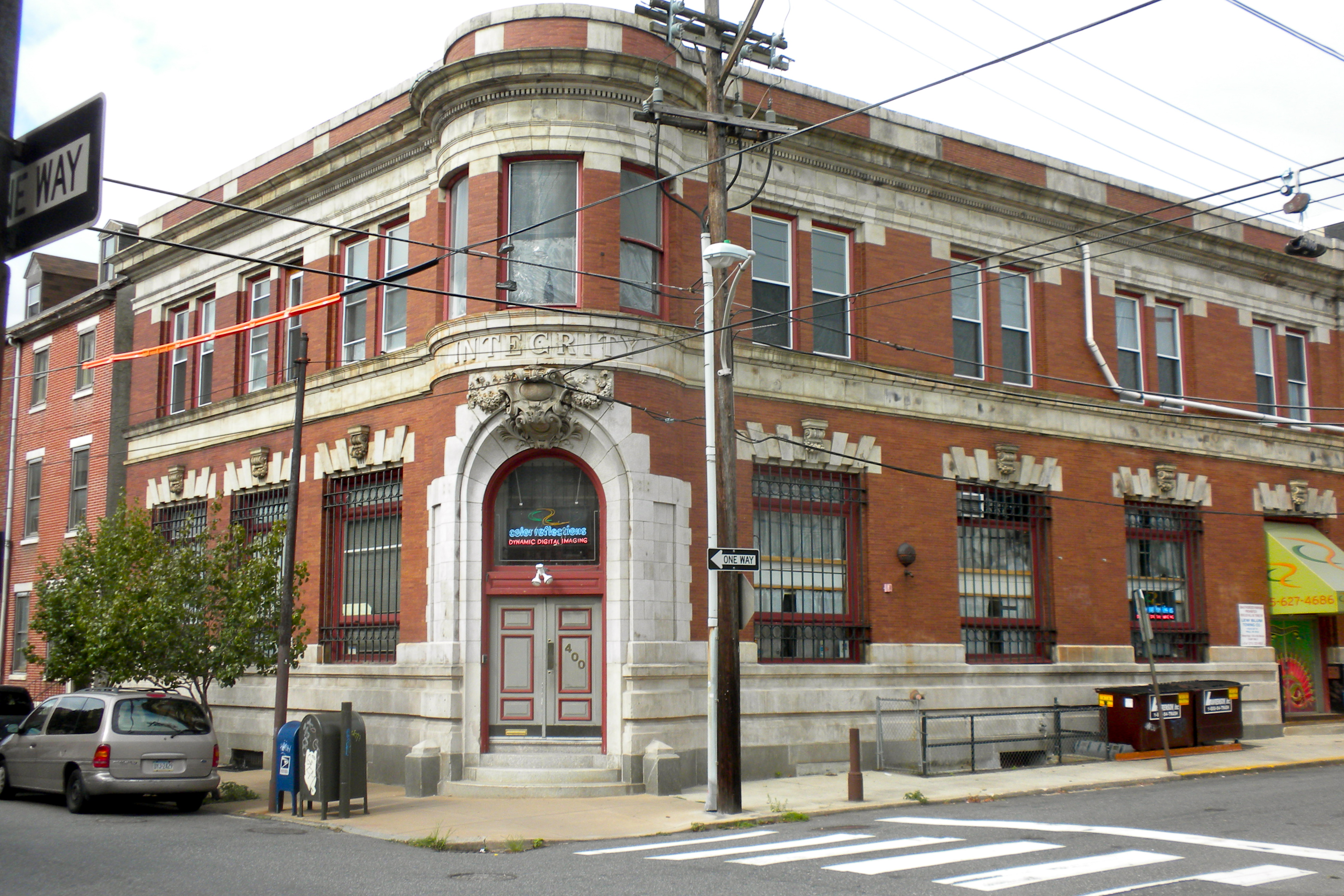 Integrity Title Insurance, Trust and Safe Deposit Company on the NRHP since November 14, 1982. At 4th and Green Sts., Philadelphia, in the Northern Liberties neighborhood of North Philly